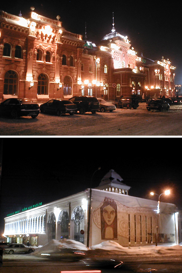 Main and suburban buildings of railstation in Kazan (night lighted)